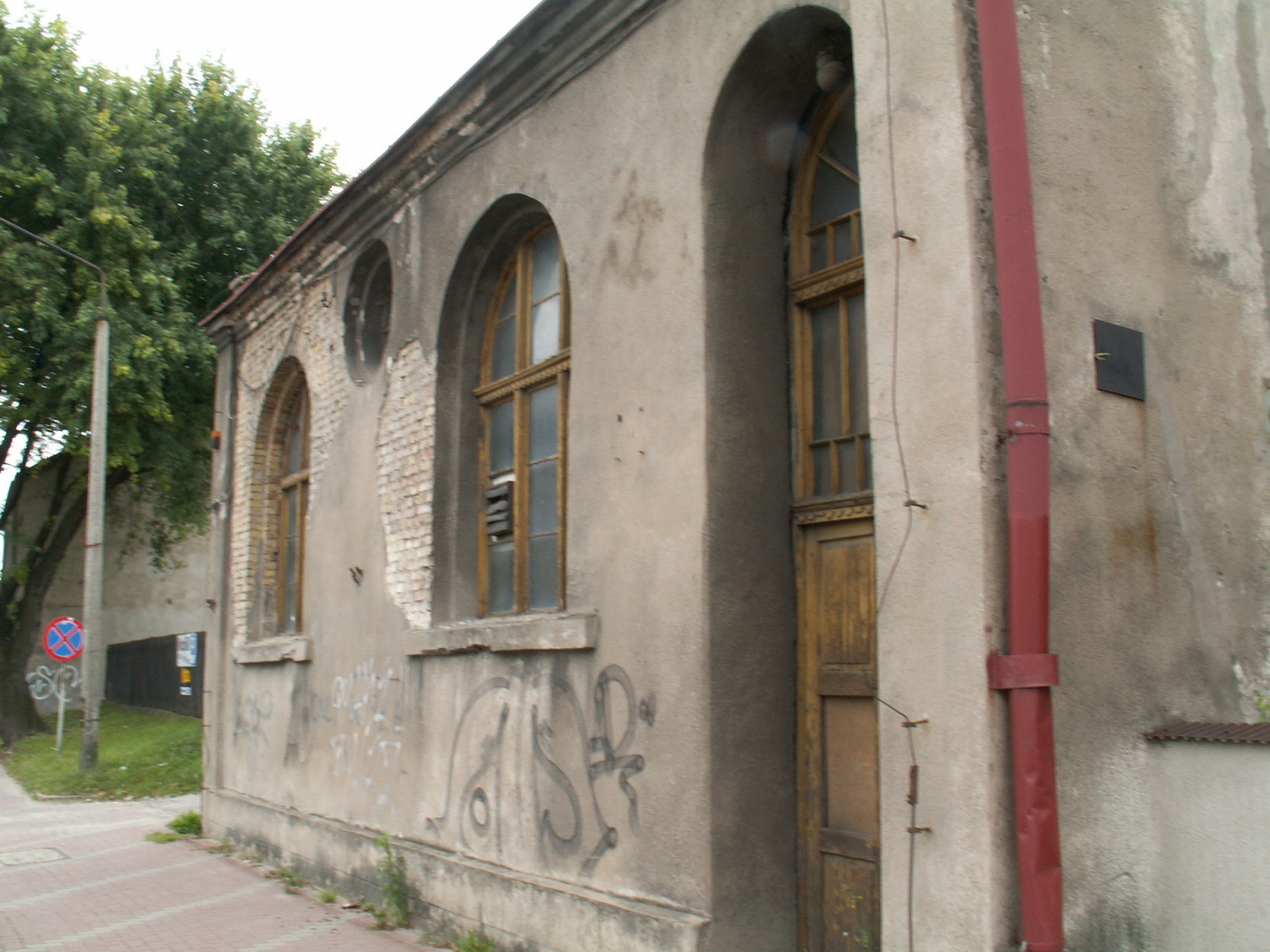 Merchants Synagogue in Trzebinia